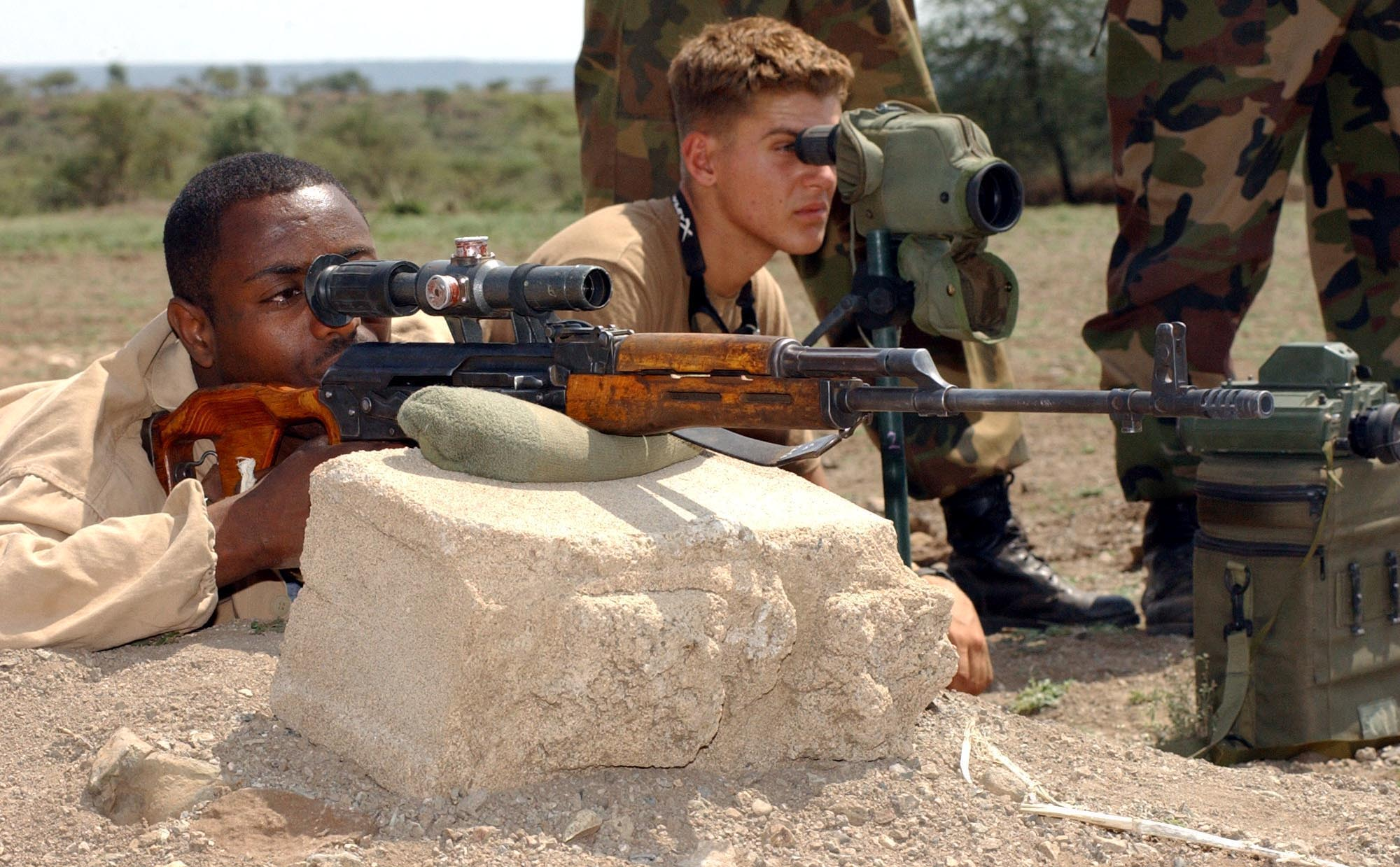 PhotoID: 2003914102937 Submitted by: Combined Joint Task Force - Horn of Africa Operation/Exercise/Event: Combined Joint Task Force - Horn of Africa Caption: Ethiopian Private Abebaw Damte fires a Romanian PSL rifle at a shooting range outside Camp Ramrod, Ethiopia, September 1, while Army Privite First Class Justin Kelley, a scout sniper with the 10th Mountain Division, looks downrange at the target. Soldiers from the Combined Joint Task Force are currently training with the 13th Div. Reconnaissance Company from Dire Dawa, Ethiopia in antiterrorist operations supporting CJTF-HOA's mission of detecting, disrupting and defeating transnational terrorism in the East African region.